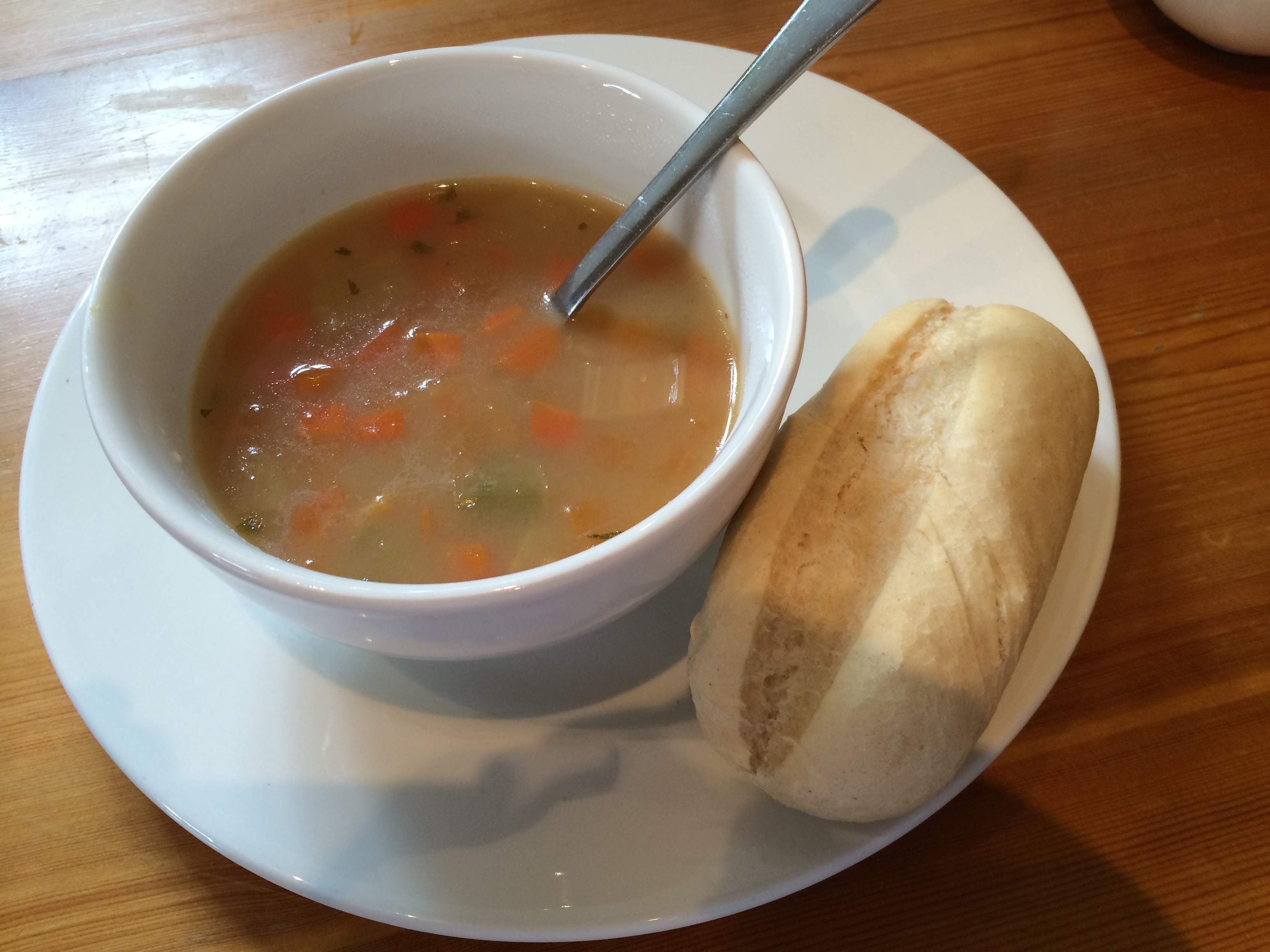 lunch at Inveraray Castle - Scotch broth